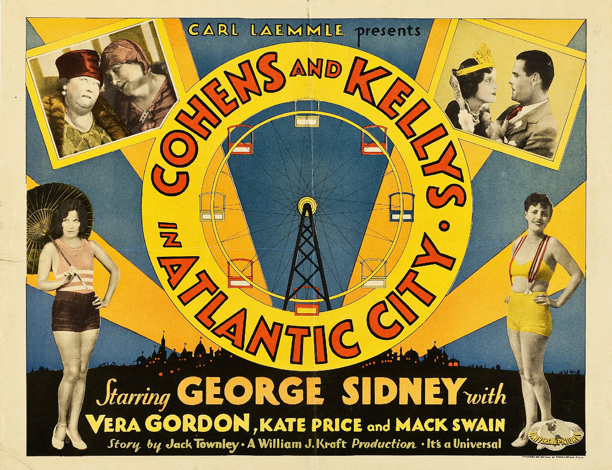 Poster for the 1929 film The Cohens and Kellys in Atlantic City.